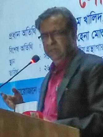 KM Khalid Babu, a Bangladesh Awami League politician and the incumbent Member of Parliament from Mymensingh-5.